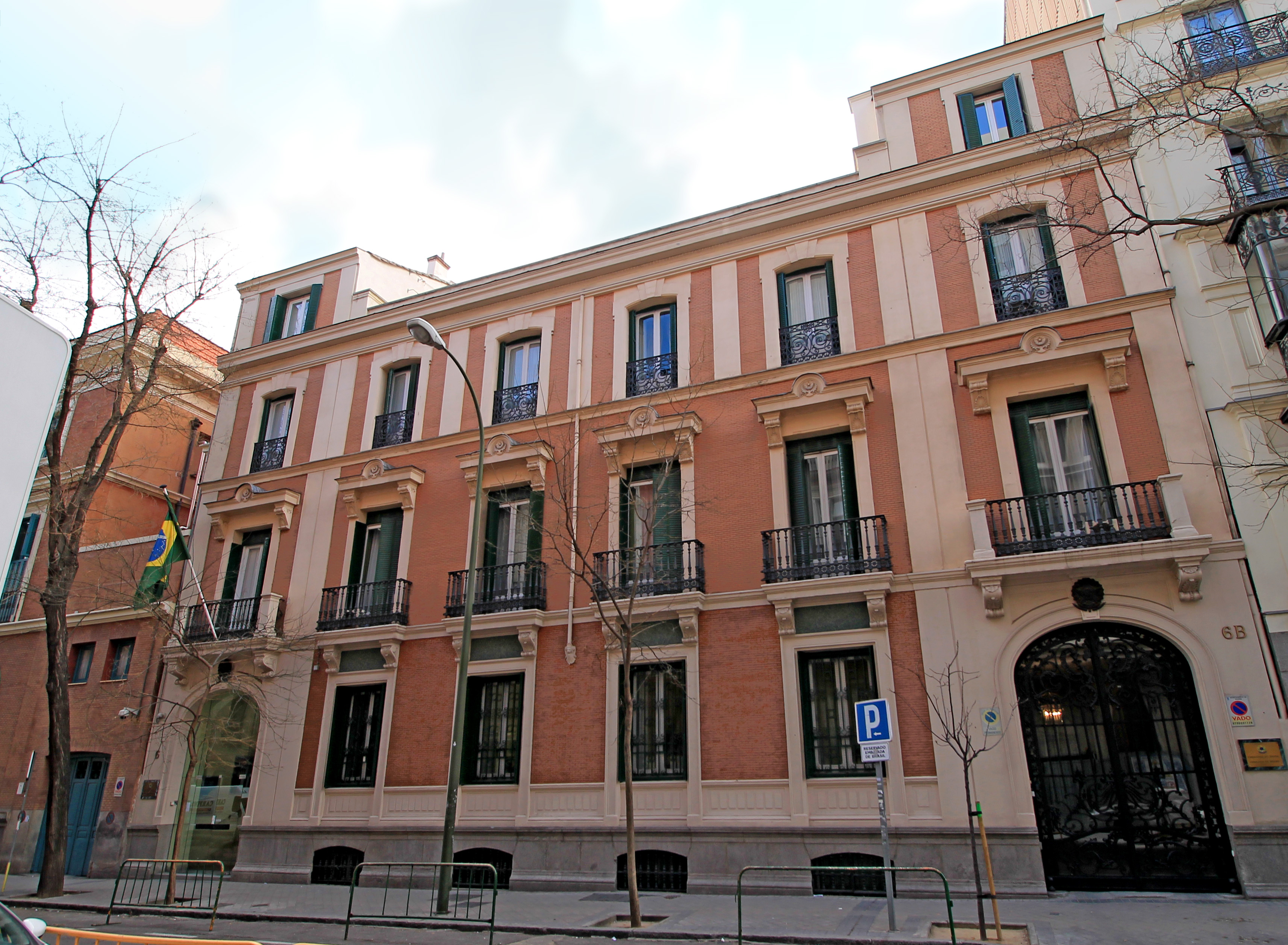 Home of the Brazilian Embassy in Madrid (Spain).